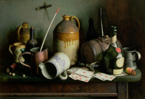 BAL4457 Foes in the Guise of Friends by Lucas, Edward George Handel (1861-1936); Private Collection; English, out of copyright possible copyright restrictions apply, consult national copyright laws